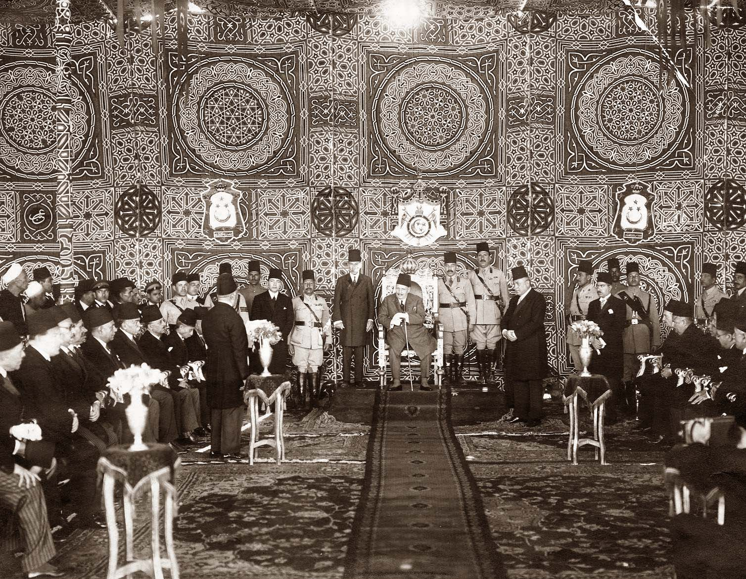 King Fouad I of Egypt sitting inside a ceremonial tent set up in the Cotton Spinning and Weaving Company at El-Mahalla El-Kubra, where he was listening to a speech by Talaat Harb .